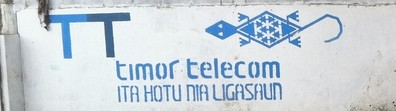 Timor Telecom advertisment